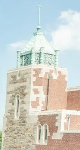 Fenwickt